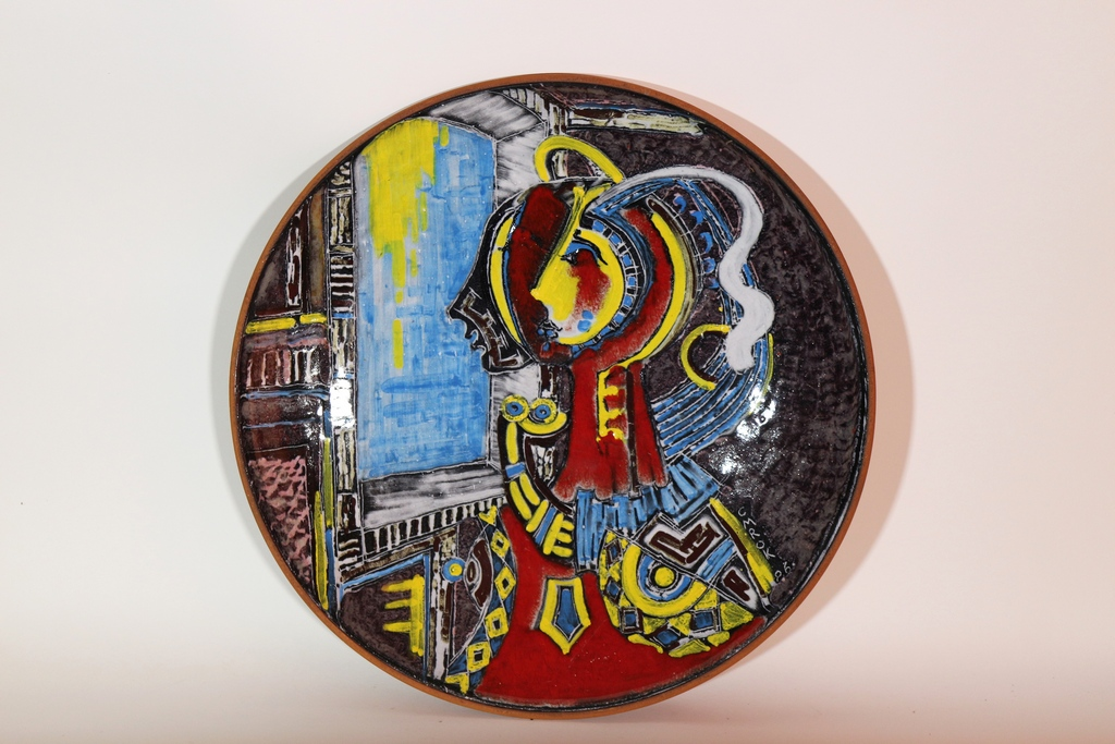 Josip Cmrok - Twins on a window